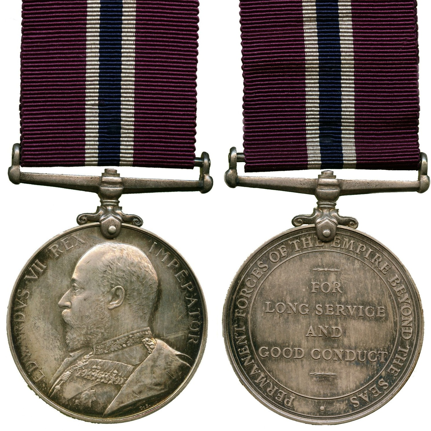 The King Edward VII version of the Permanent Forces of the Empire Beyond the Seas Medal for long service and good conduct. The medal was established in 1910 and superseded the individual Army Long Service and Good Conduct Medals that had been awarded since 1894 by the various Dominions and Colonies, such as Australia, Canada, Cape of Good Hope, India, Natal and New Zealand.